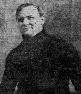 Multnomah Athletic Club football player Paul Rader in 1907. Rader would become an Evangelist later in his live.